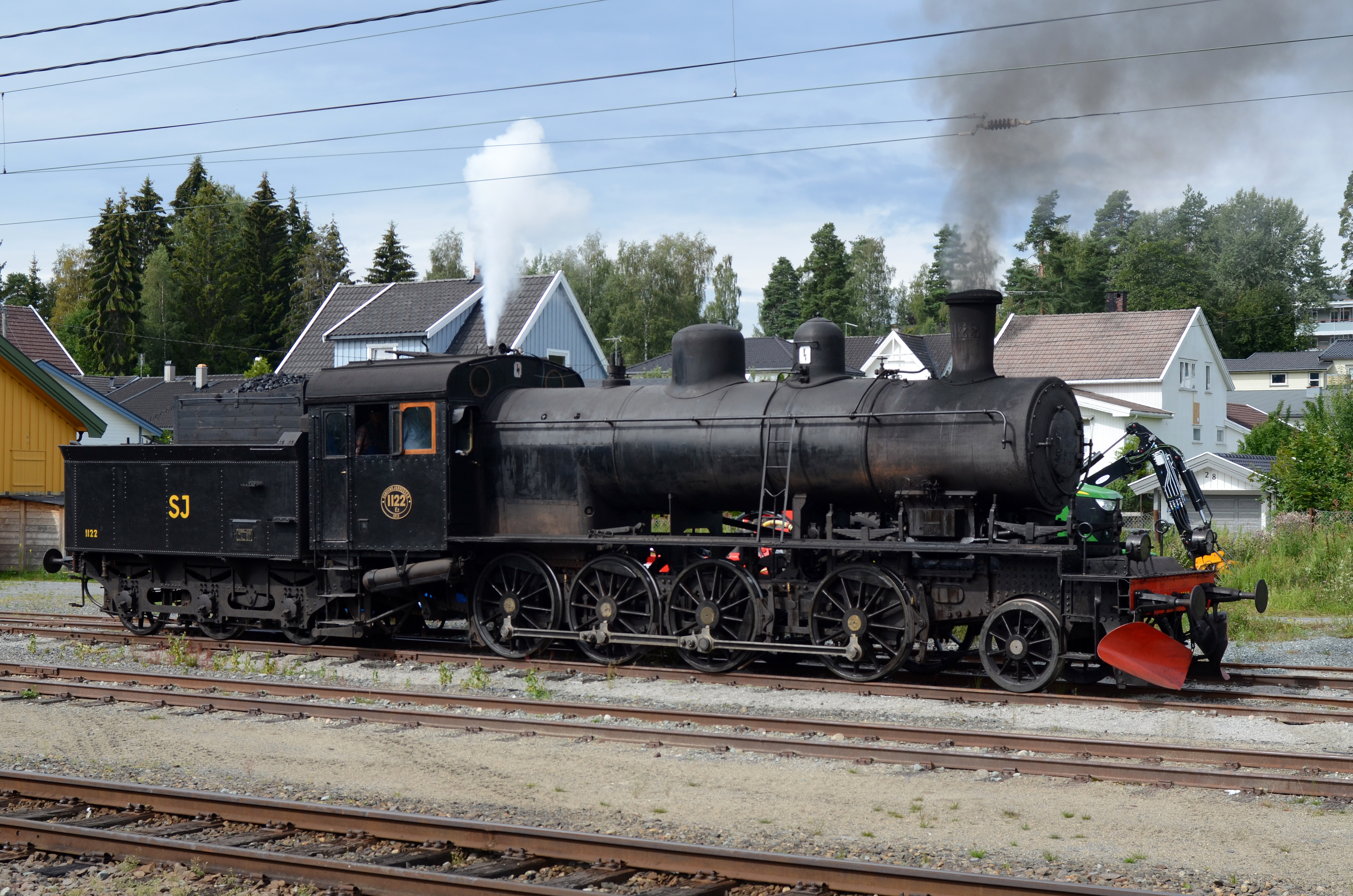 Krøderbanen locomotive Type E2 nr. 1122.